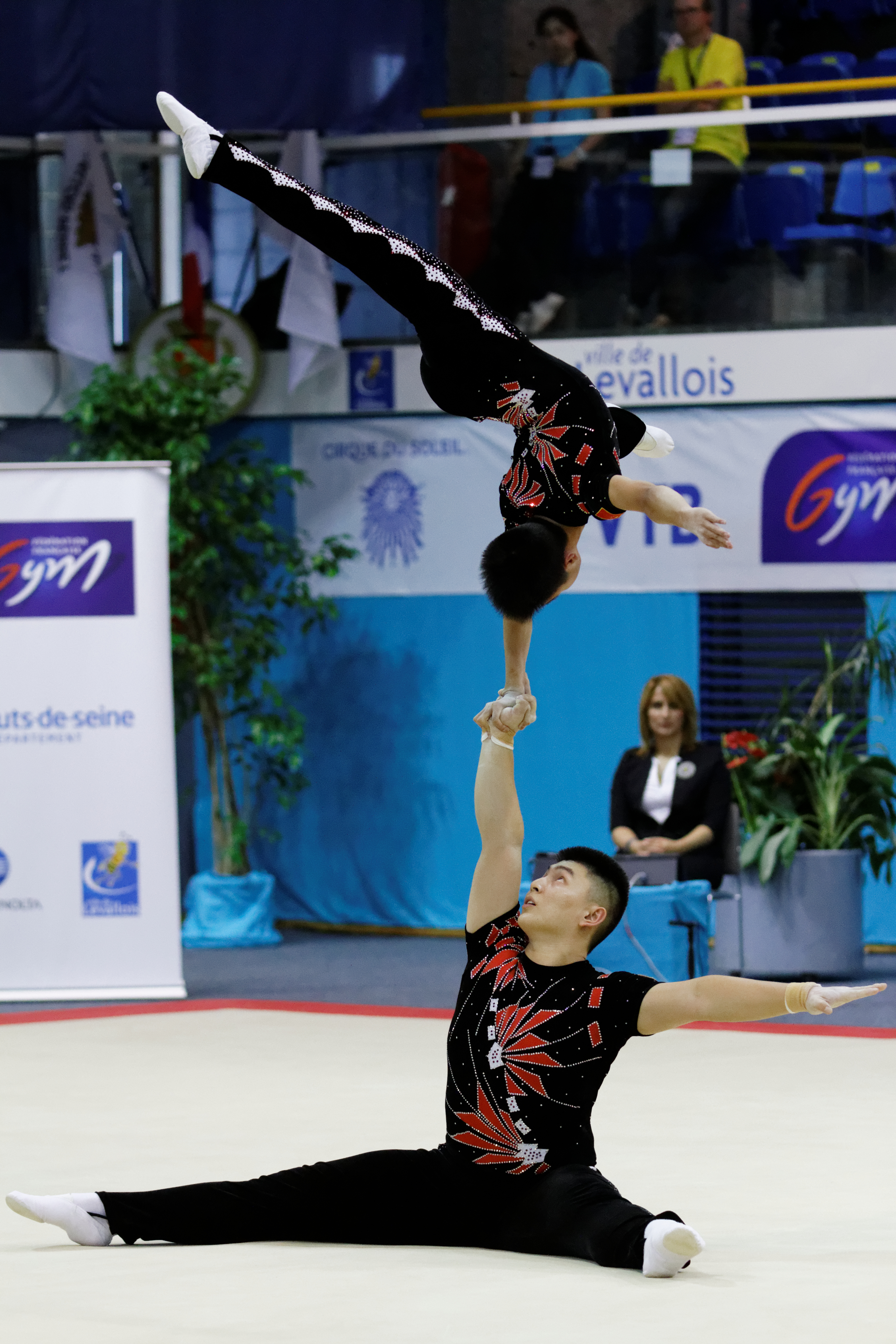 2014 Acrobatic Gymnastics World Championships, 10th-12 July, Levallois-Perret, France. Finals: men's pair. China.